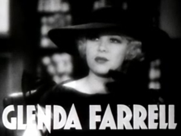 Cropped screenshot of Glenda Farrell from the trailer for the film Havana Widows